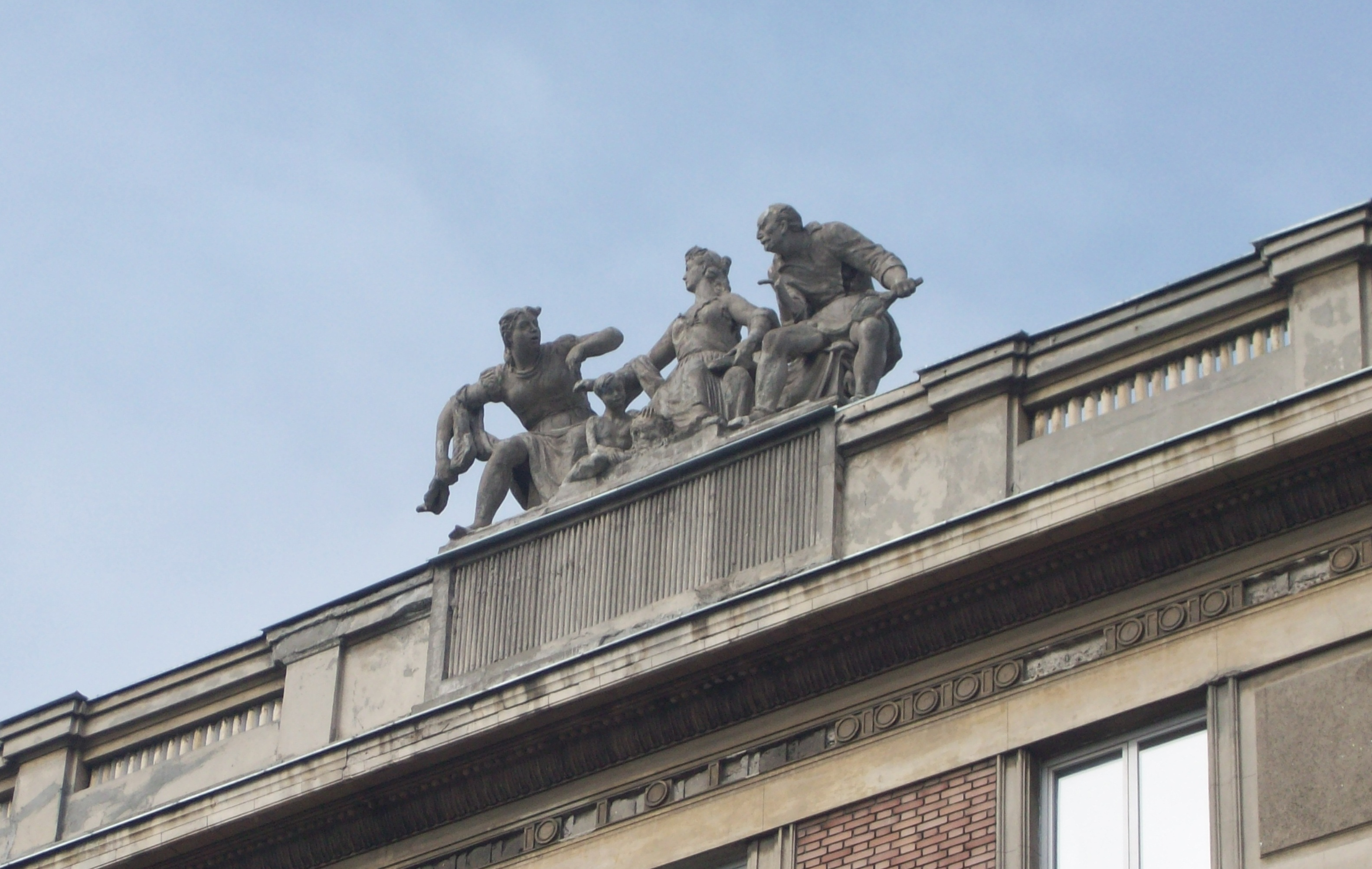 Allegorical presentation of Theatre made by Kazimierz Bieńkowski in 1952. The monument is situated in Warsaw, on Koszykowa Street.